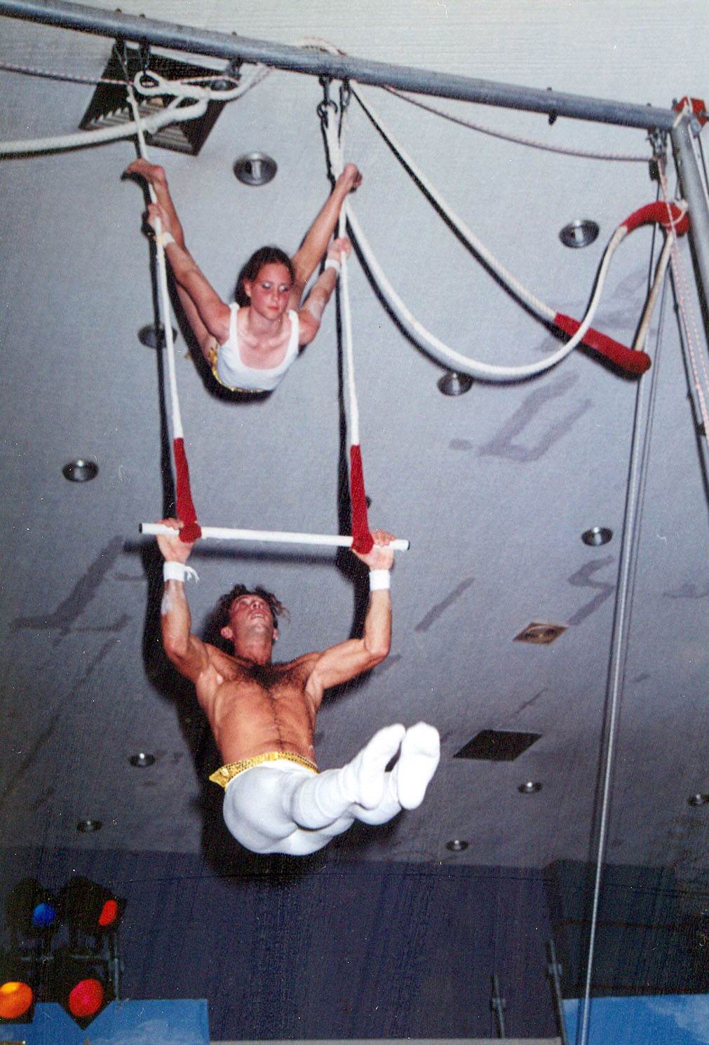 Ten year old performs Birds Nest after 5 days tuition